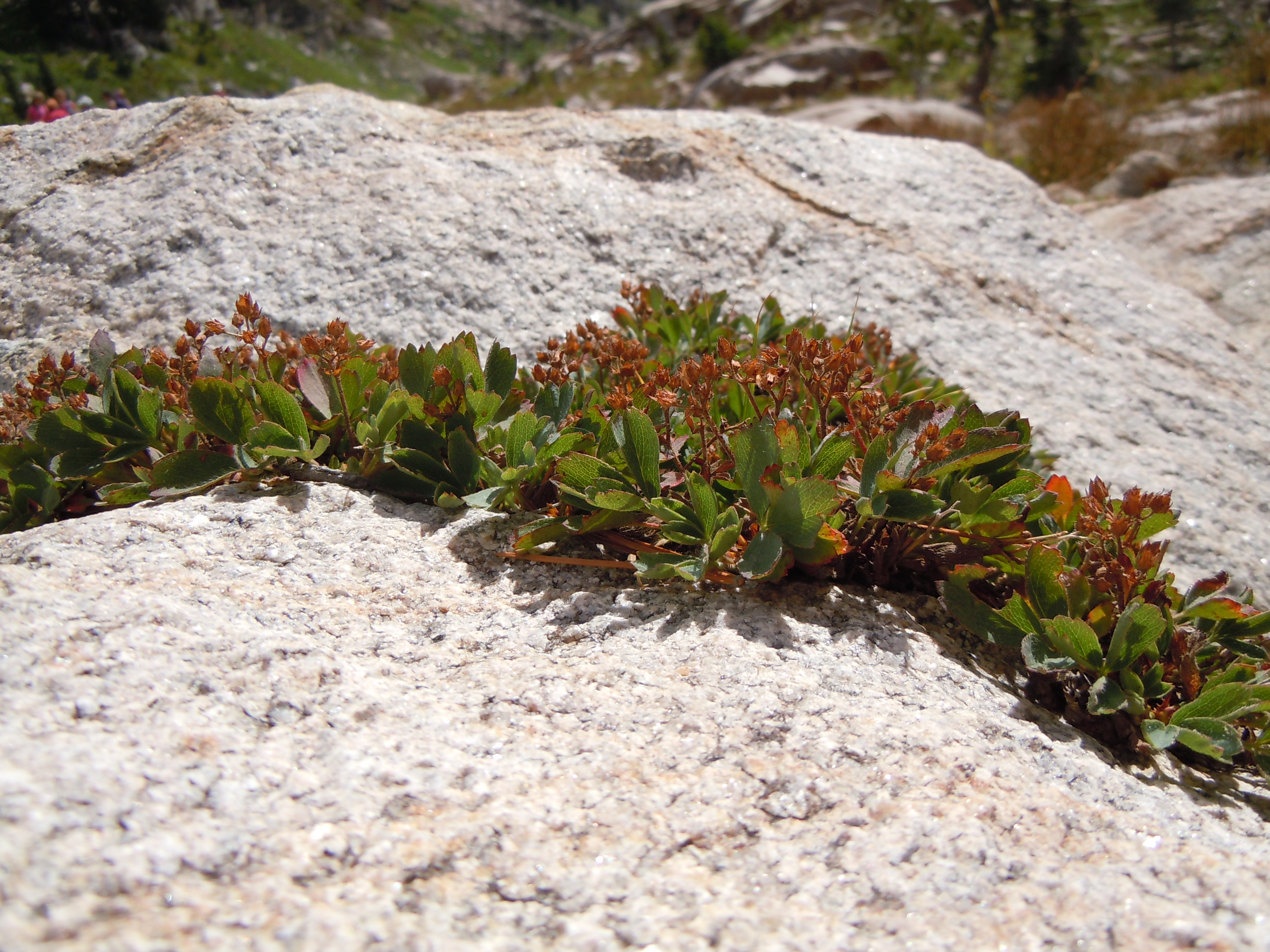 Sibbaldia is common in subalpine and alpine settings in dry rocky sites.